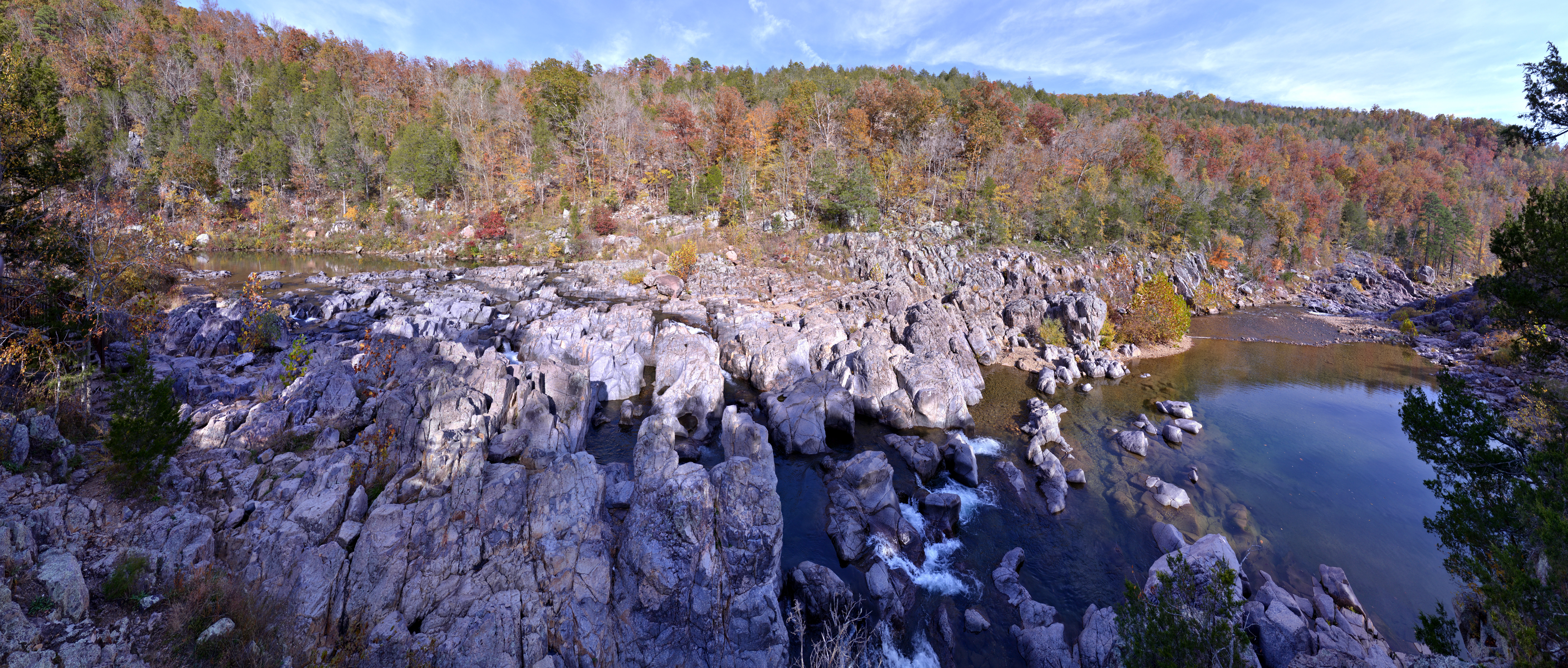 The shut-ins at Johnson's Shut-ins State Park in Missouri in autumn. This panoramic image was stitched from 90 images and rendered with an equirectangular Panini projection.